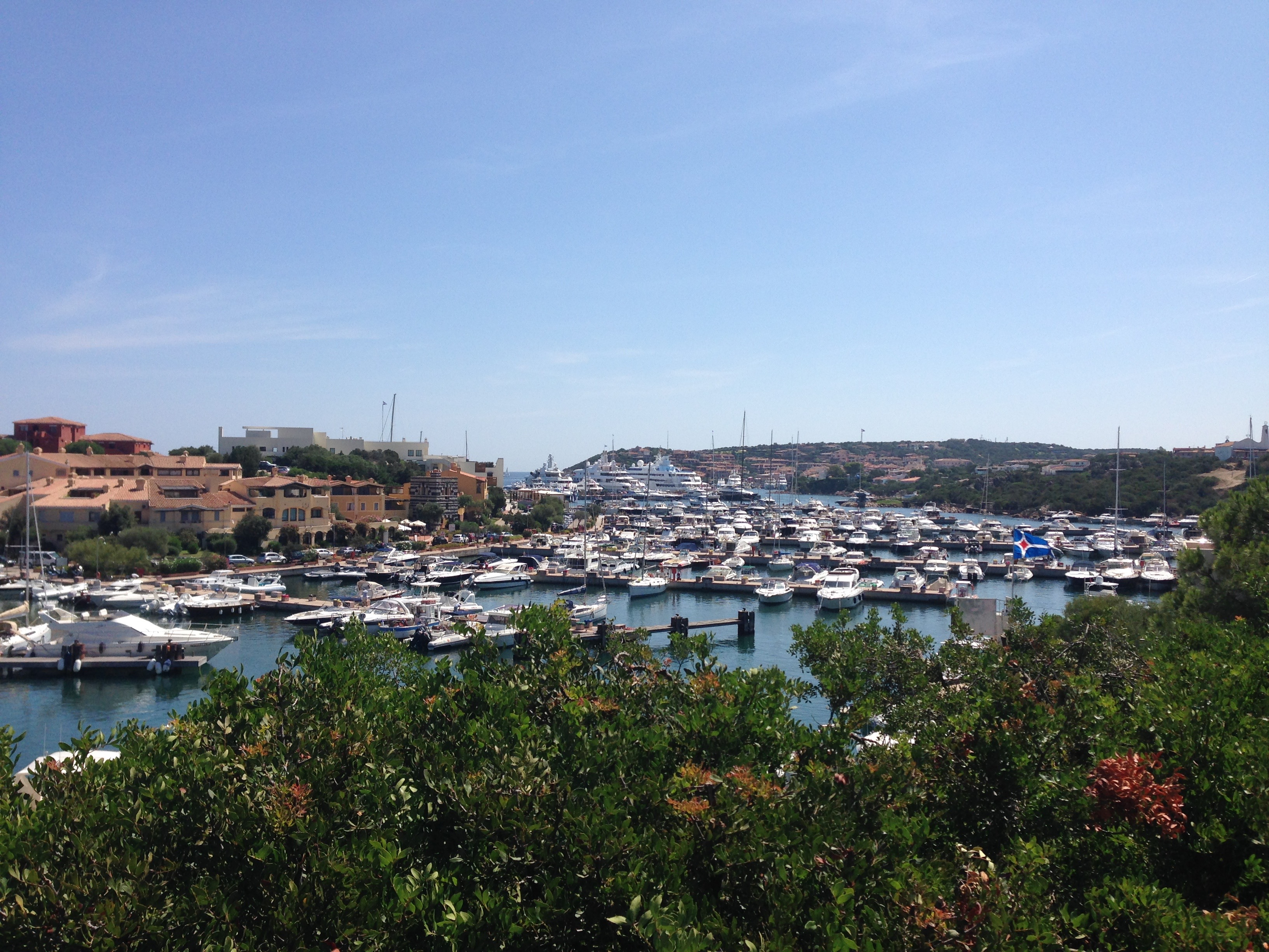 Panoramic view of Porto Cervo